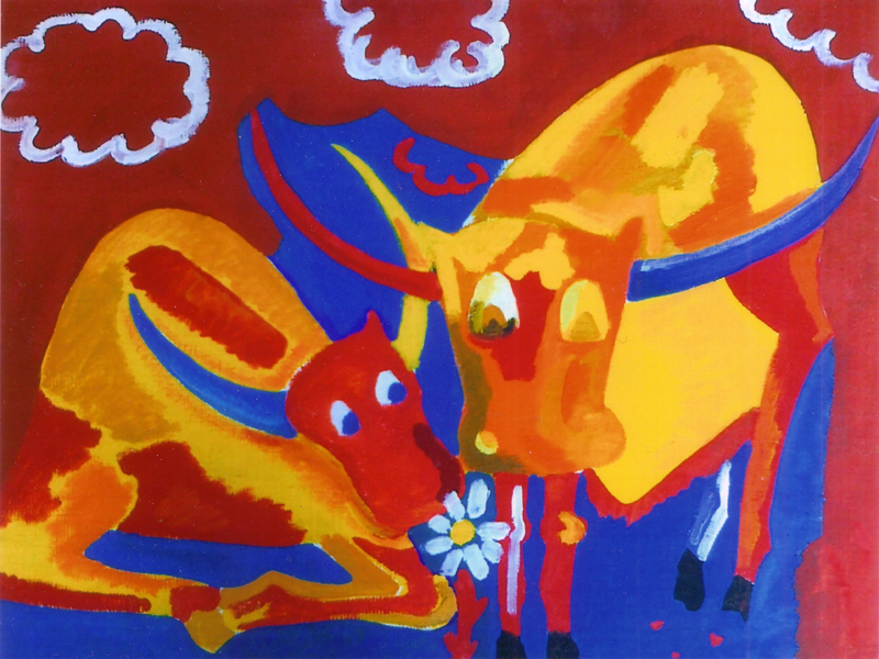 This picture placed in the Armenian department of the Museum of children's art